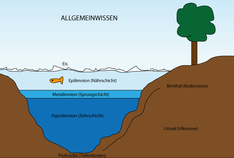 basic knowledge